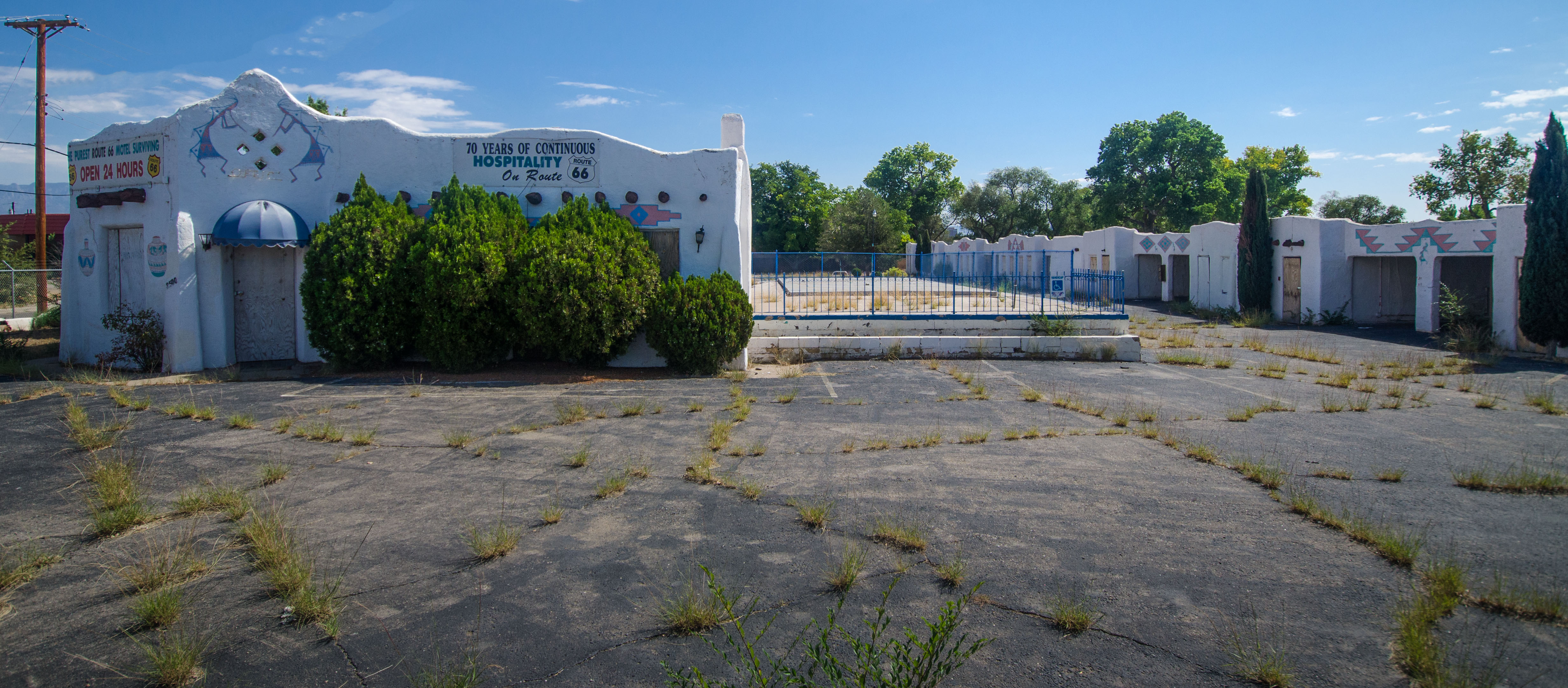 in 2012, the El Vado was saved from the wrecking ball in 2008 and there was hope that the property would be re purposed soon by a developer working with the City's historic preservation people. However, the recession hit soon after and the property sits behind chain link fence abandoned. Until the economy recovers, that appears the way it will remain. This photo was taken by sticking my camera above the fence through the barbed wire.